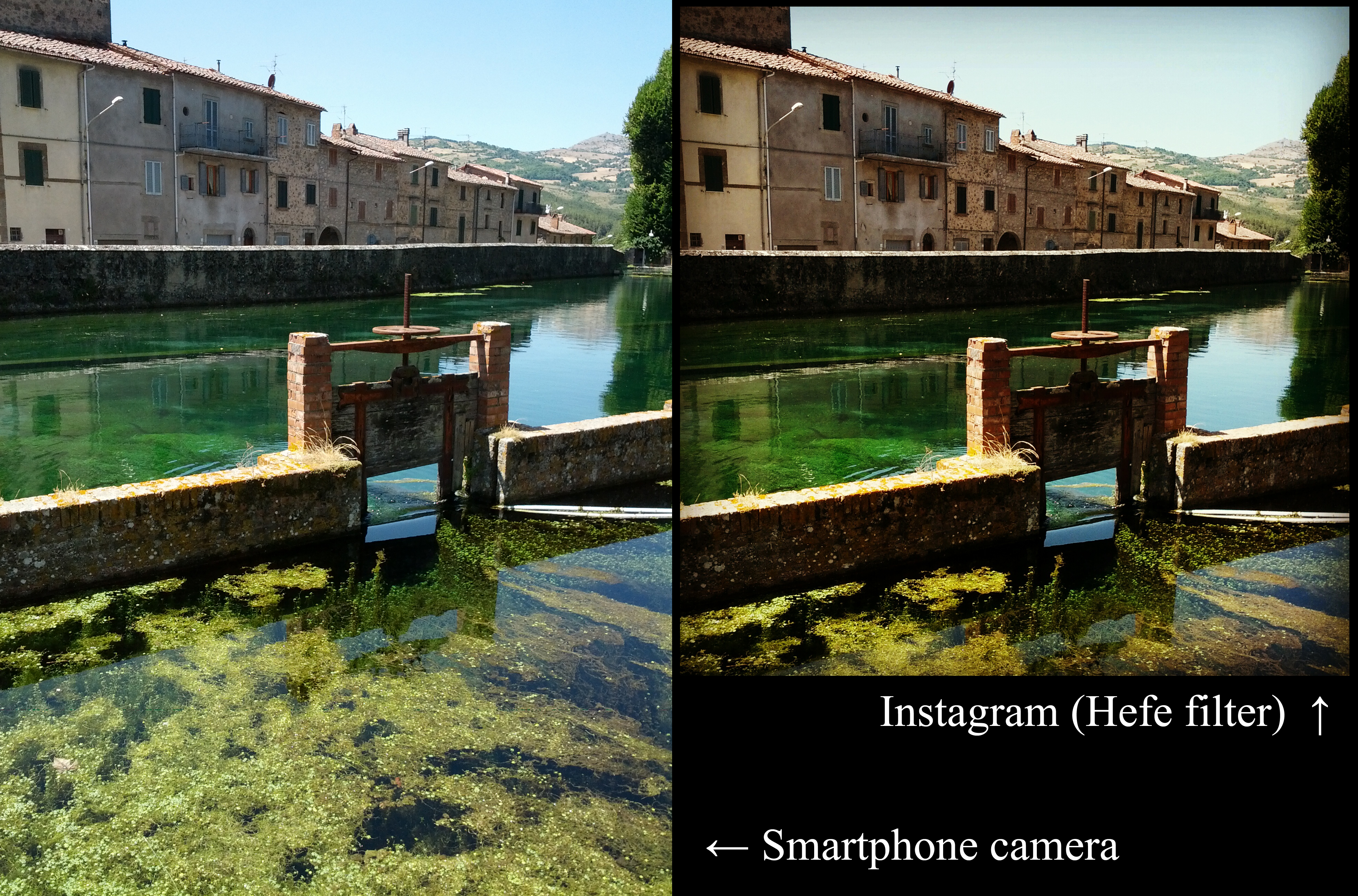 La Peschiera in Santa Fiora, Italy: with and without the Instagram Hefe filter.